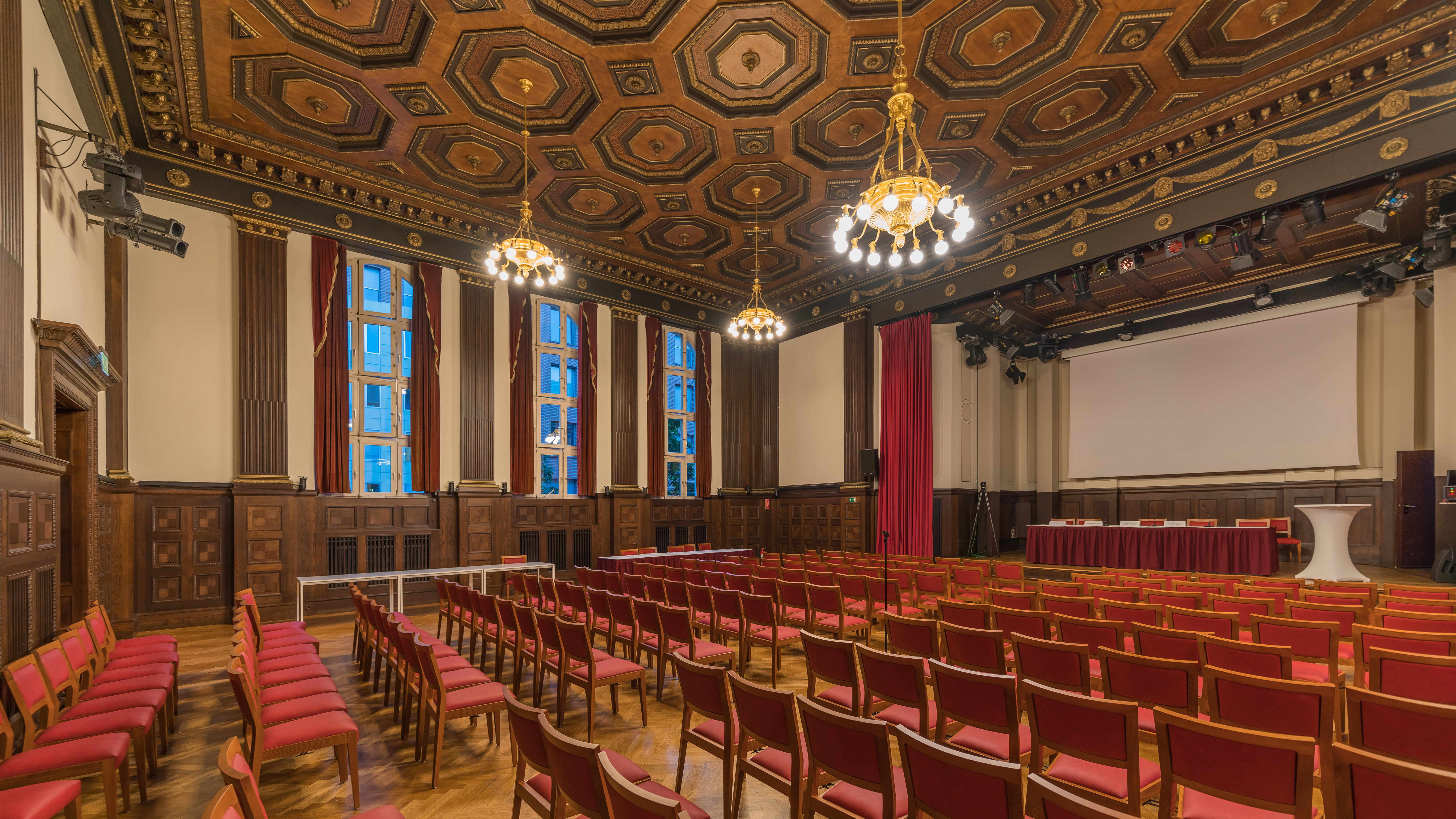 Interior of Meistersaal (Master Hall / Hansa Studio 2) in Berlin